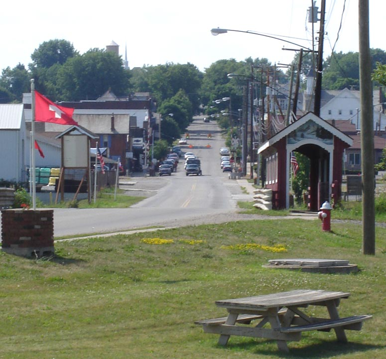 Ohio _ Sugarcreek - 07-08-07 By:Mike Sharp.